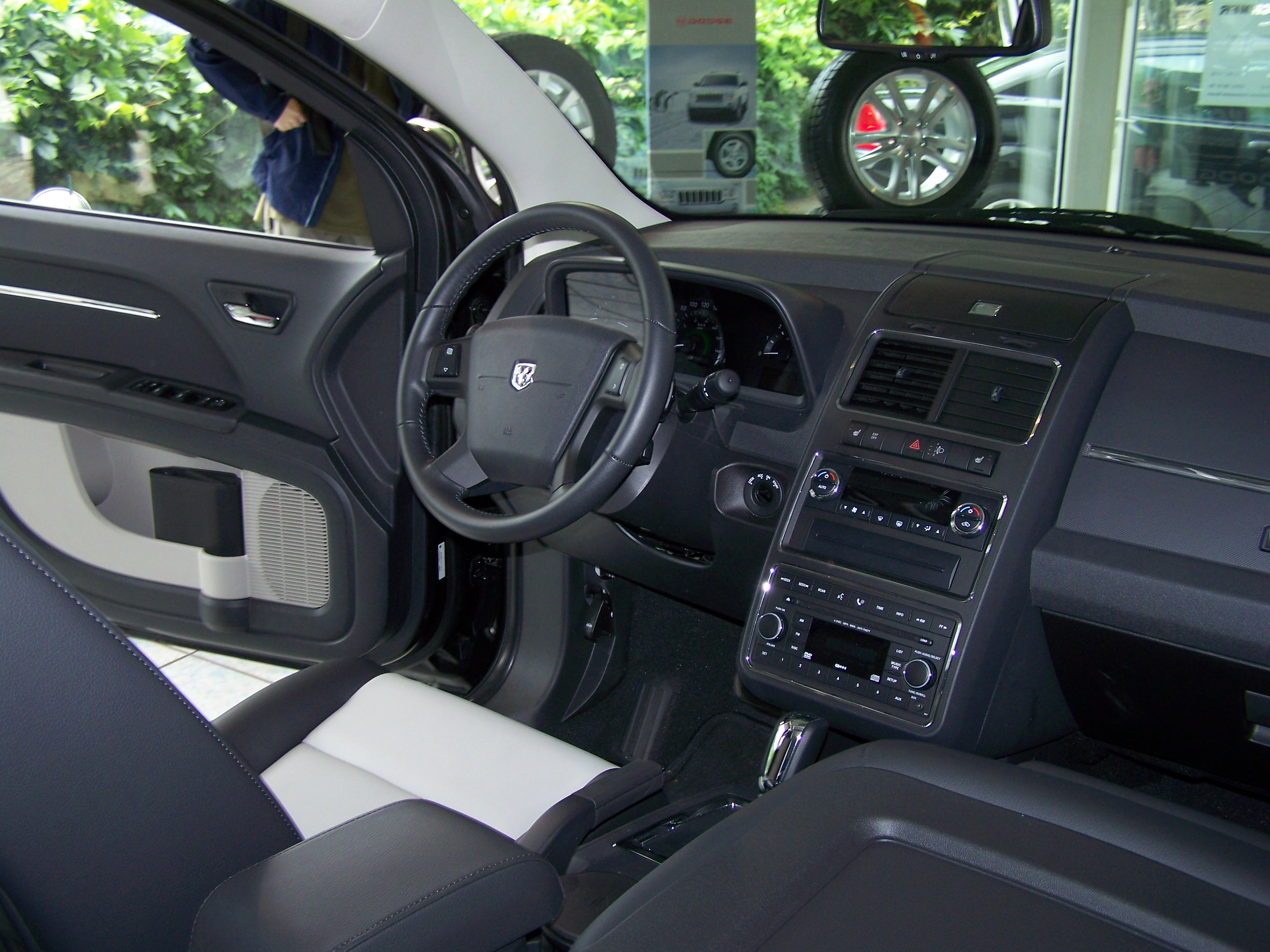 Interior of Dodge Journey R/T (German model)